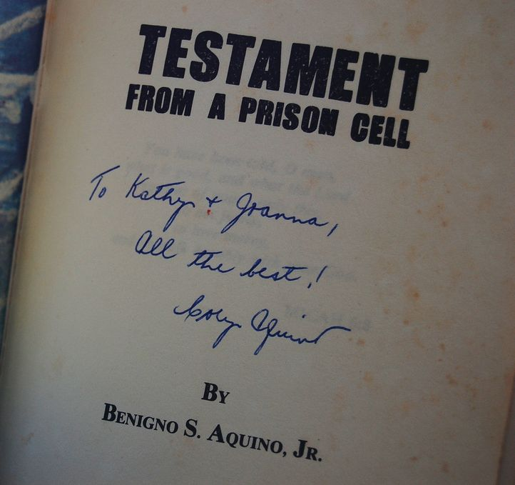 柯拉蓉於1983年所簽名的艾奎諾著作《來自牢籠中的誓約》 Gratitude: an autograph from the icon of democracy I showed my mom this note and suddenly her memories returned of that day she purchased the book. It was 1983 and she was in the Ninoy Aquino museum at Cojuangco building in Makati. She saw Cory Aquino by her desk surrounded by a group of women. Cory was talking to them saying, "I want the young people to know what Ninoy had done to have a taste of what freedom is like again." My mom was close enough to hear her and approached her to say, "I have two daughters, and I will make sure that they know about what Ninoy had done." Cory replied, "Come let me autograph your book." Cover Page of the Book and Additional Information